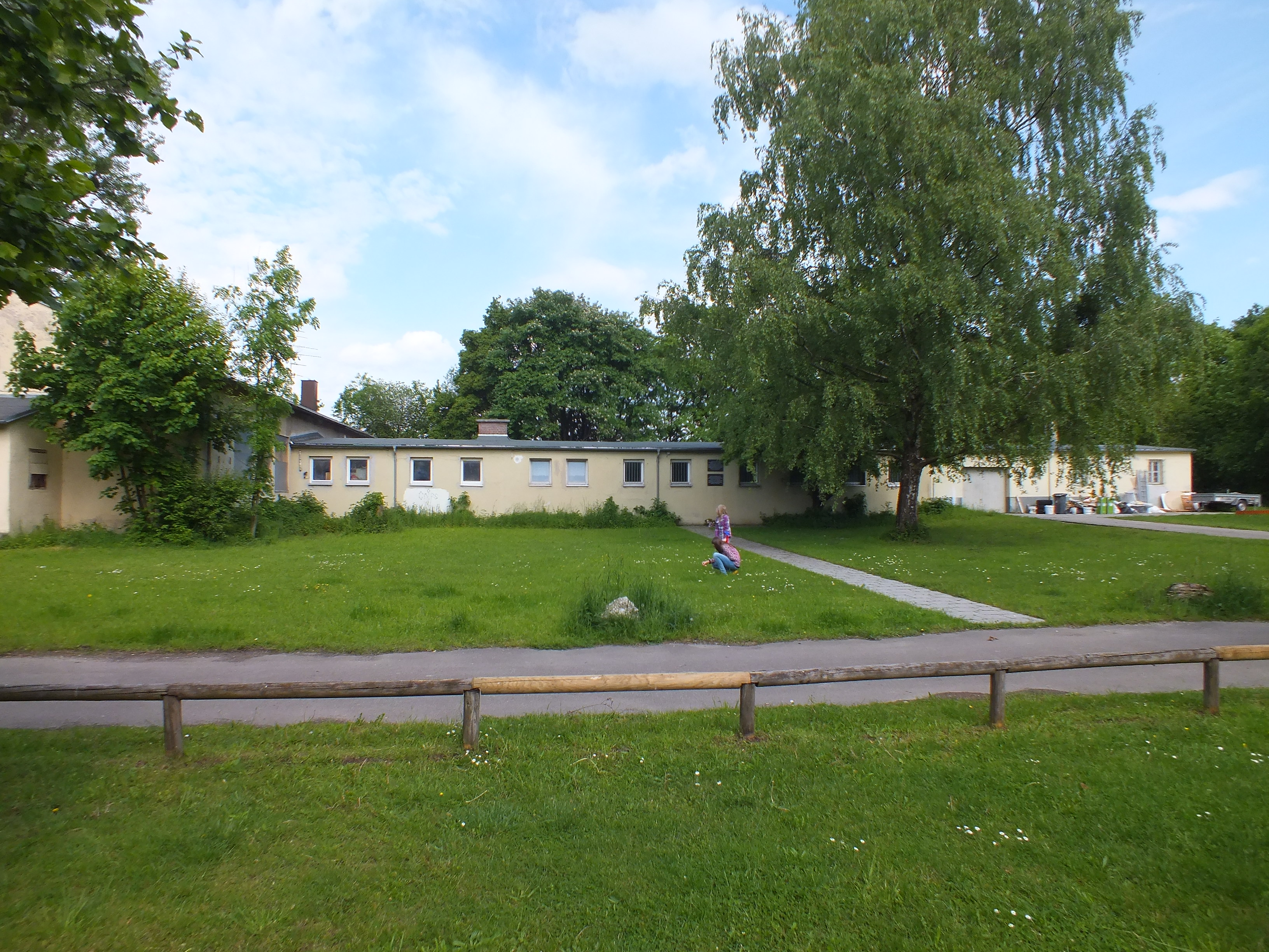 Last existing buildings of subcamp Allach of Nazi concentration camp Dachau, location Munich, Granatstraße 8 + 10